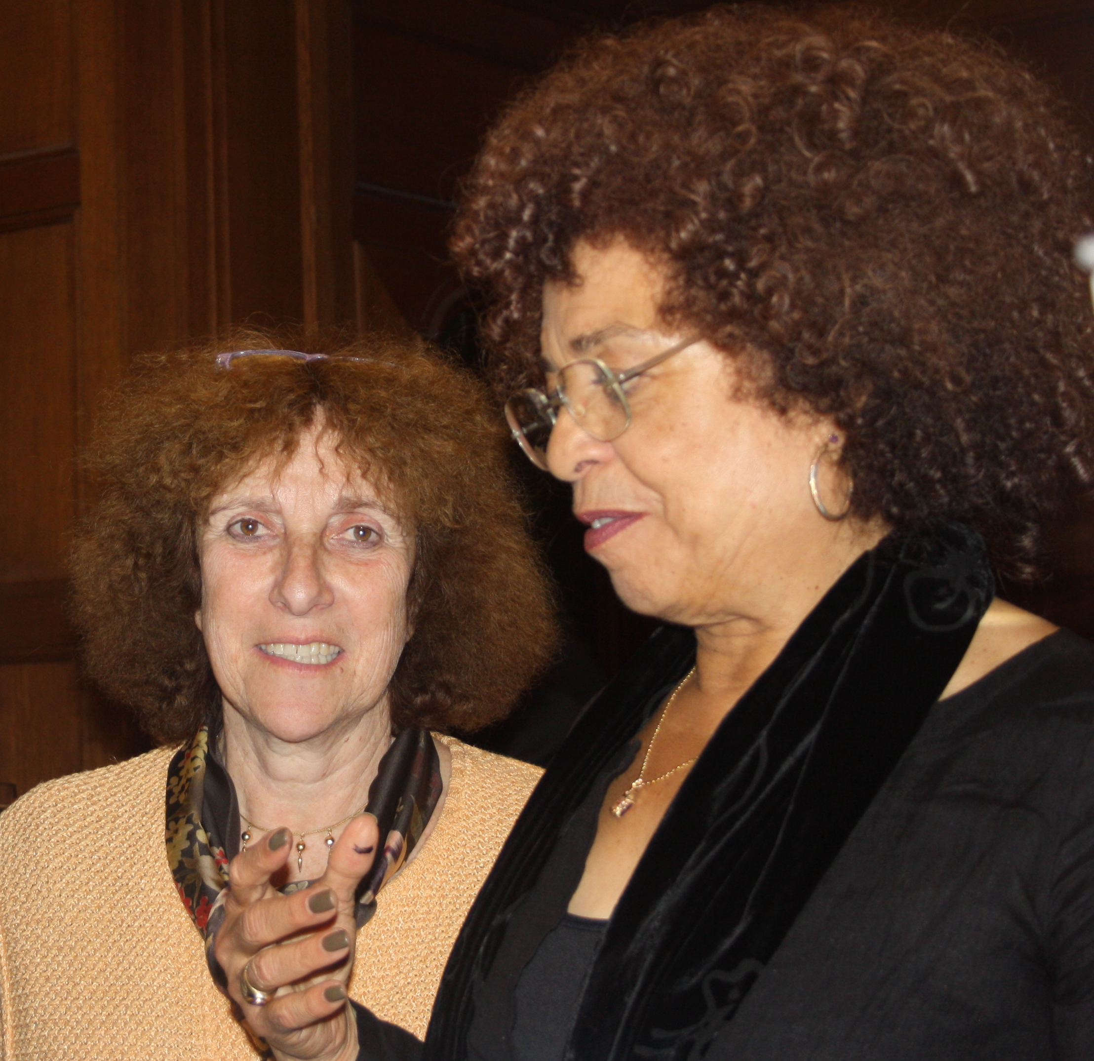 Anne Morelli in the company of Angela Davis, Brussels, 2012.